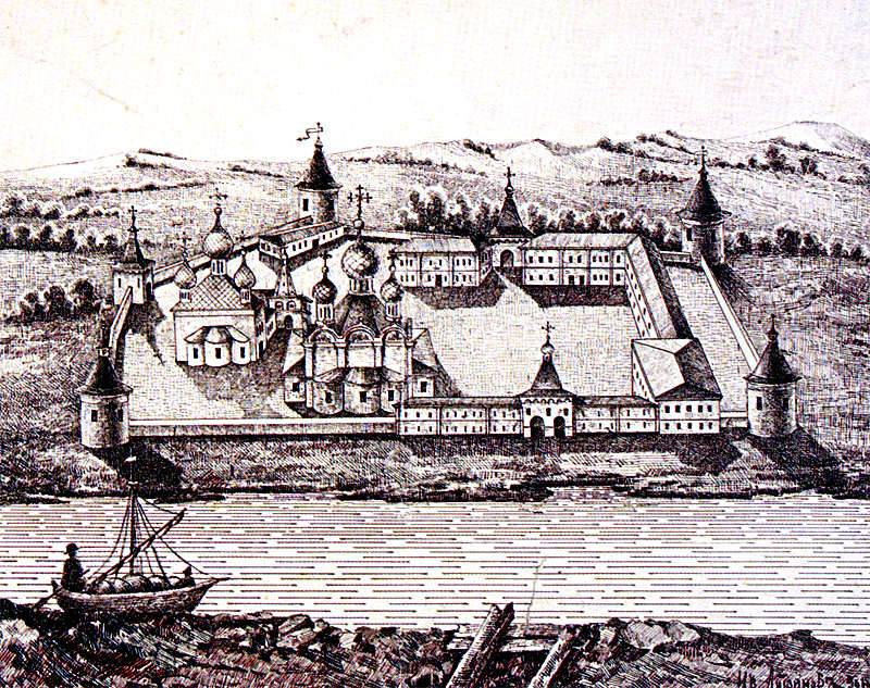 Ipatiev Monastery in 1613. Engraving XIX c.